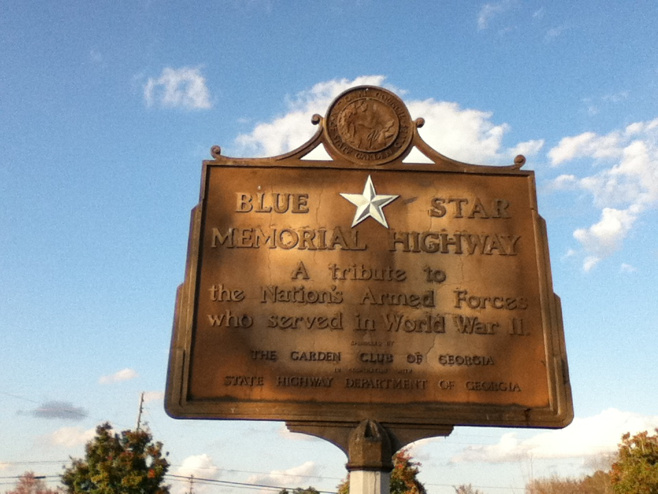 Blue Star Memorial Historic Marker in Appling County, Georgia